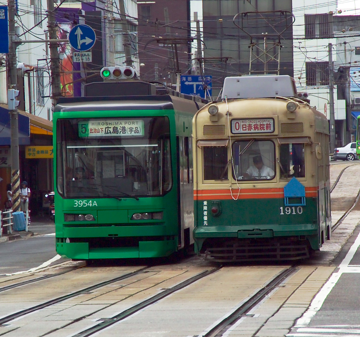 Old and new Hiroden streetcars near Hiroden Hiroshima Station in Hiroshima, Japan.